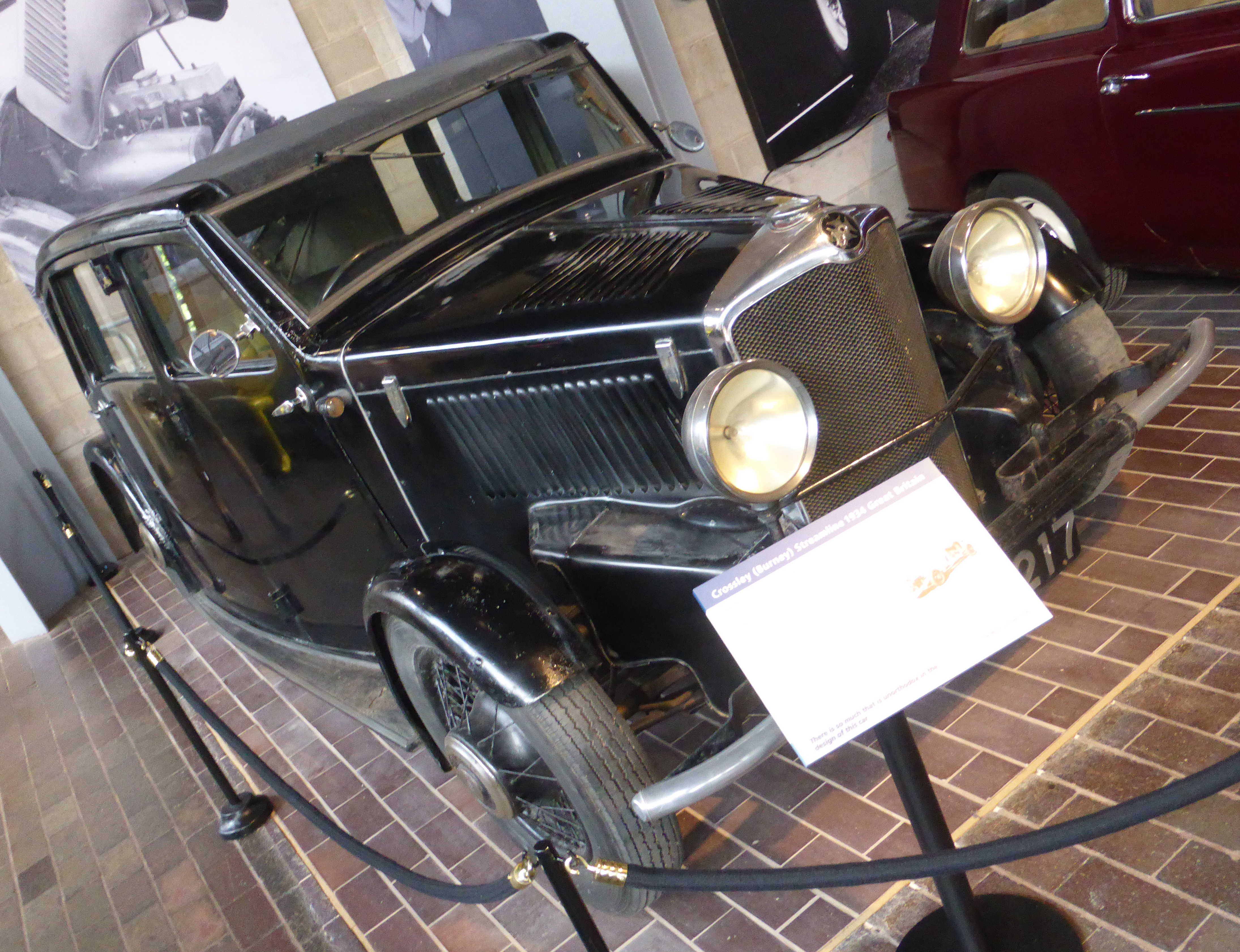 British rival for the Tatra T77? National Motor Museum at Beaulieu.